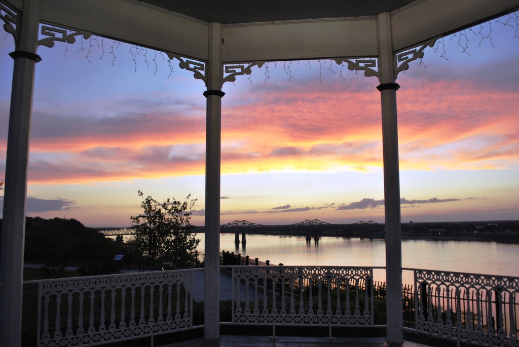 Natchez Bluffs and Under-the-Hill Historic District